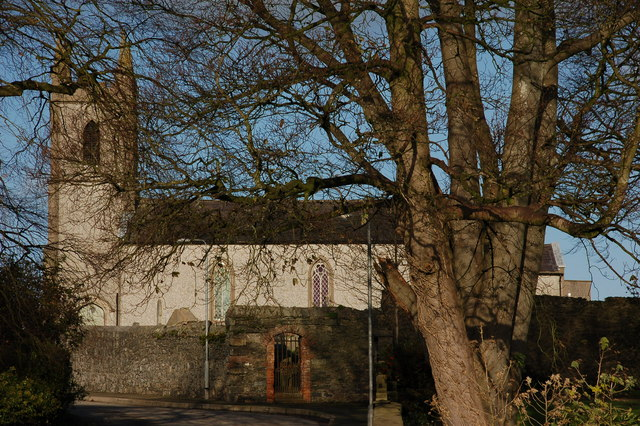 Church, Killinchy The present CoI church was built in 1829/30 replacing an earlier church on the site. It occupies an attractive setting, on a small hill, partly surrounded by trees. The cemetery is enclosed by the stone wall in the foreground.